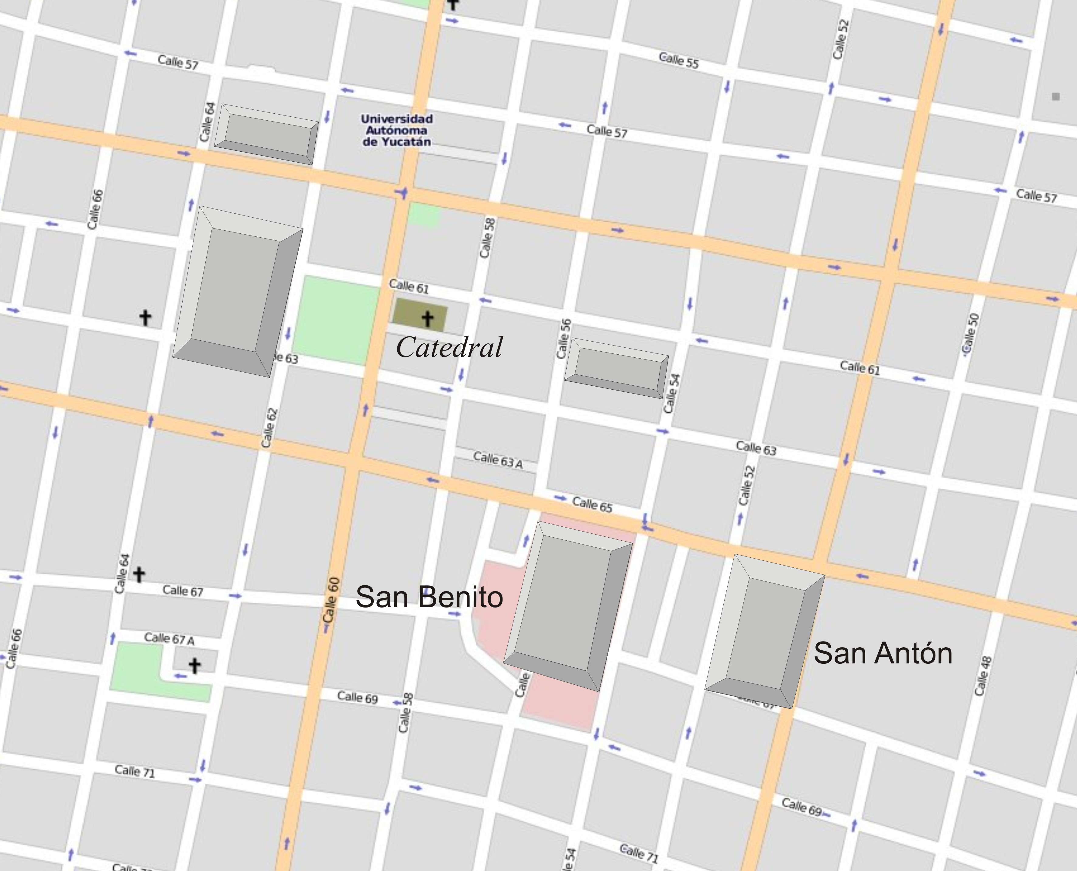 Locations of major prehispanic buildings in Mérida, Yucatan, Mexico.